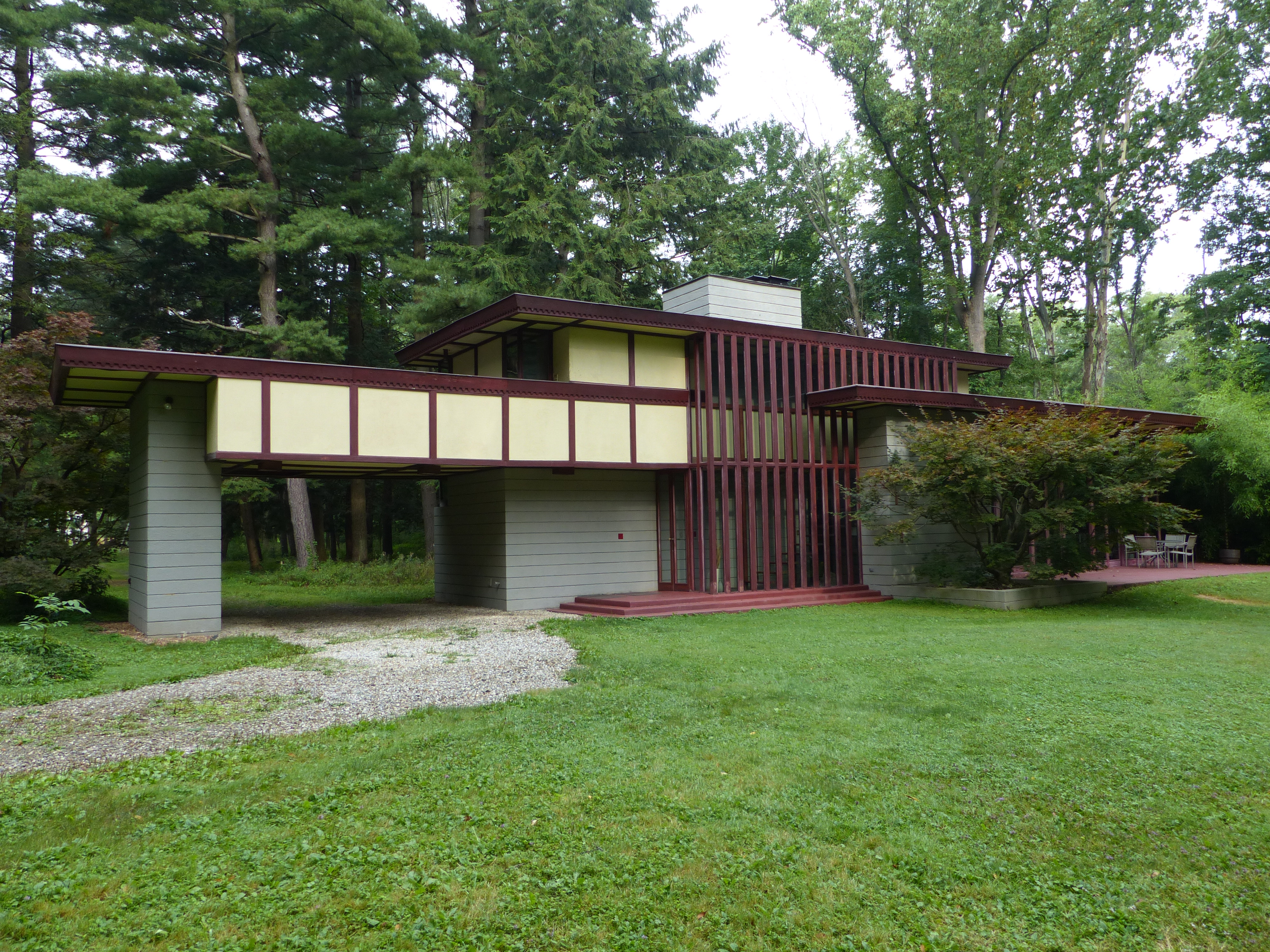 east facade